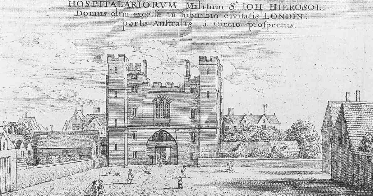 St John's Gate, Clerkenwell, Middlesex, 1661 depiction by Wenceslaus Hollar (1607-1677). Behind the gate to the right is Berkeley House, built by Sir Maurice Berkeley (by 1514–81) of Bruton in Somerset, Chief Banner Bearer of England to Kings Henry VIII, Edward VI and to Queen Elizabeth I